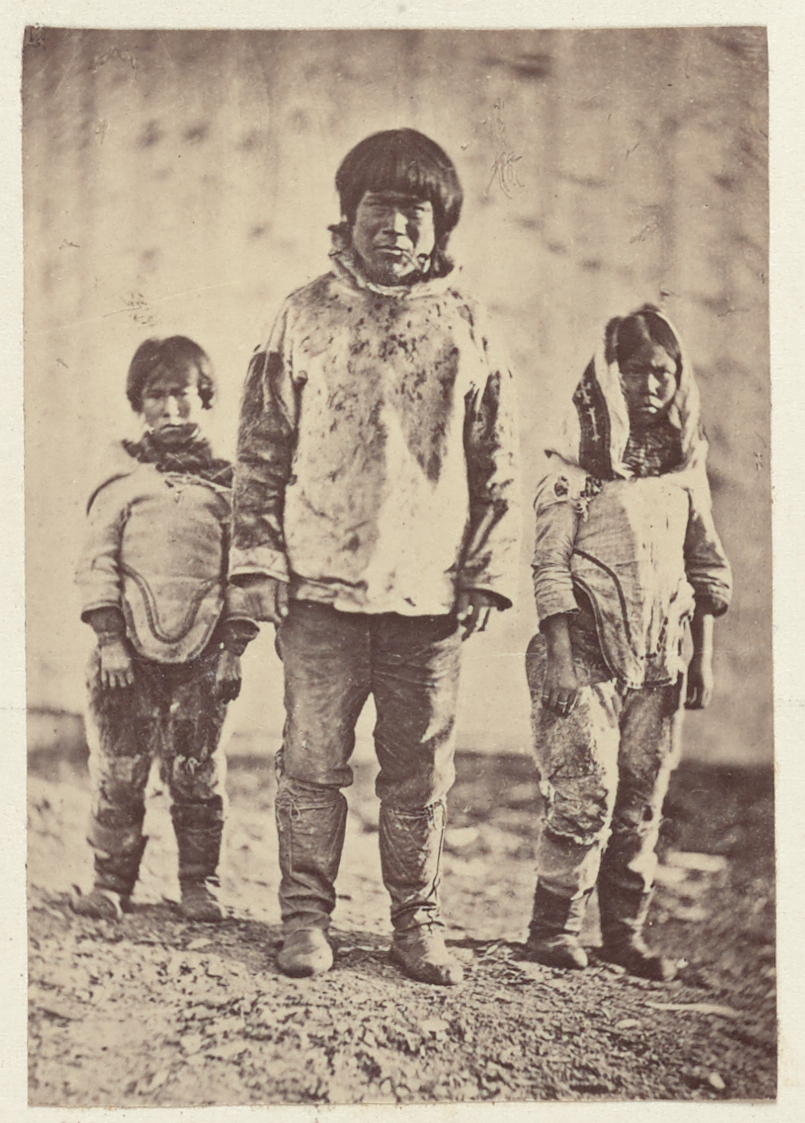 NYPL catalog ID (B-number): b10738777 TMS ID: 510044 TMS Object Number: MFZ+++ (Bradford) 82-695 (Lenox Copy), Plate 067 Universal Unique Identifier (UUID): 7f2401f0-f814-0136-6066-00db87faff80